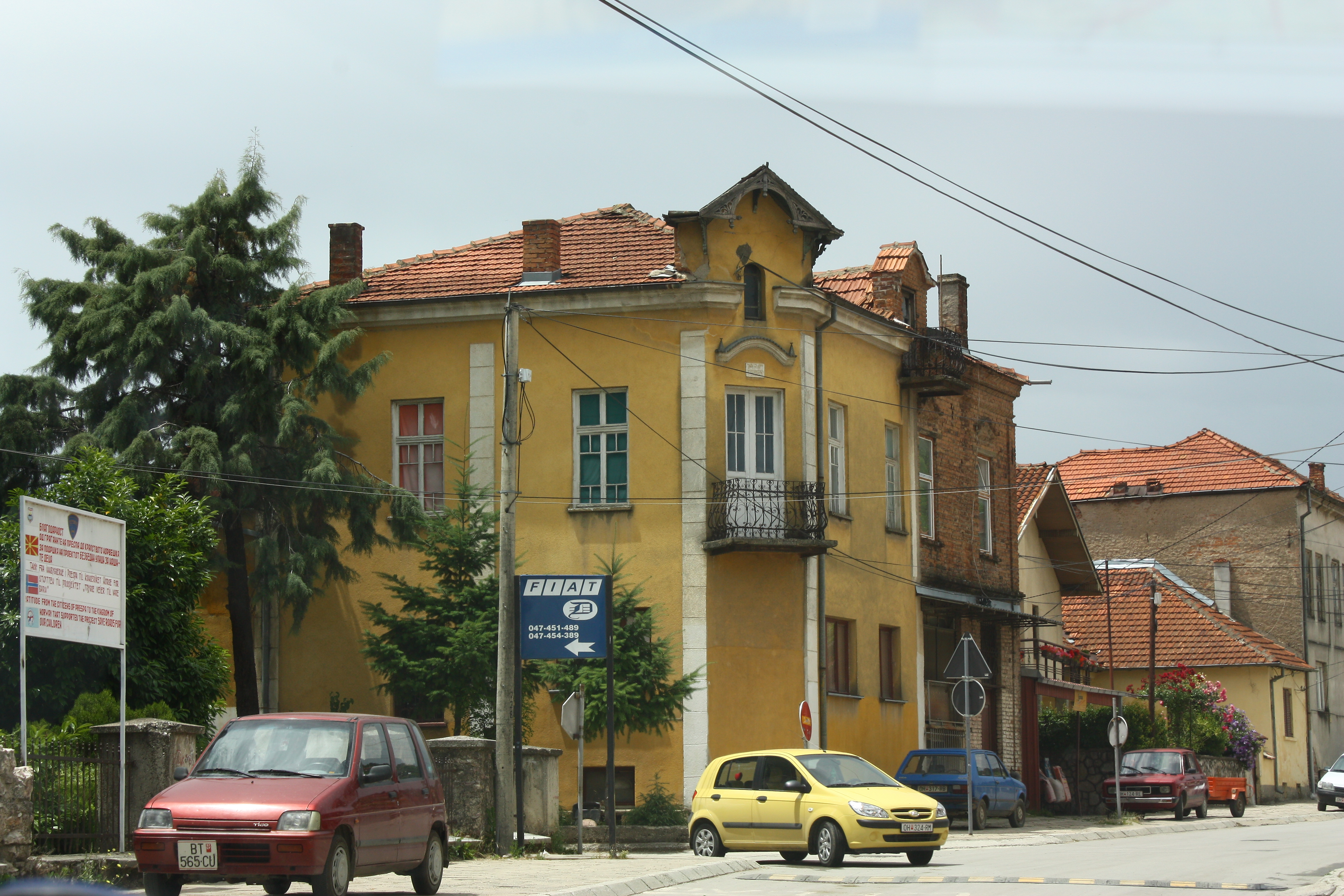 House in Resen, Macedonia